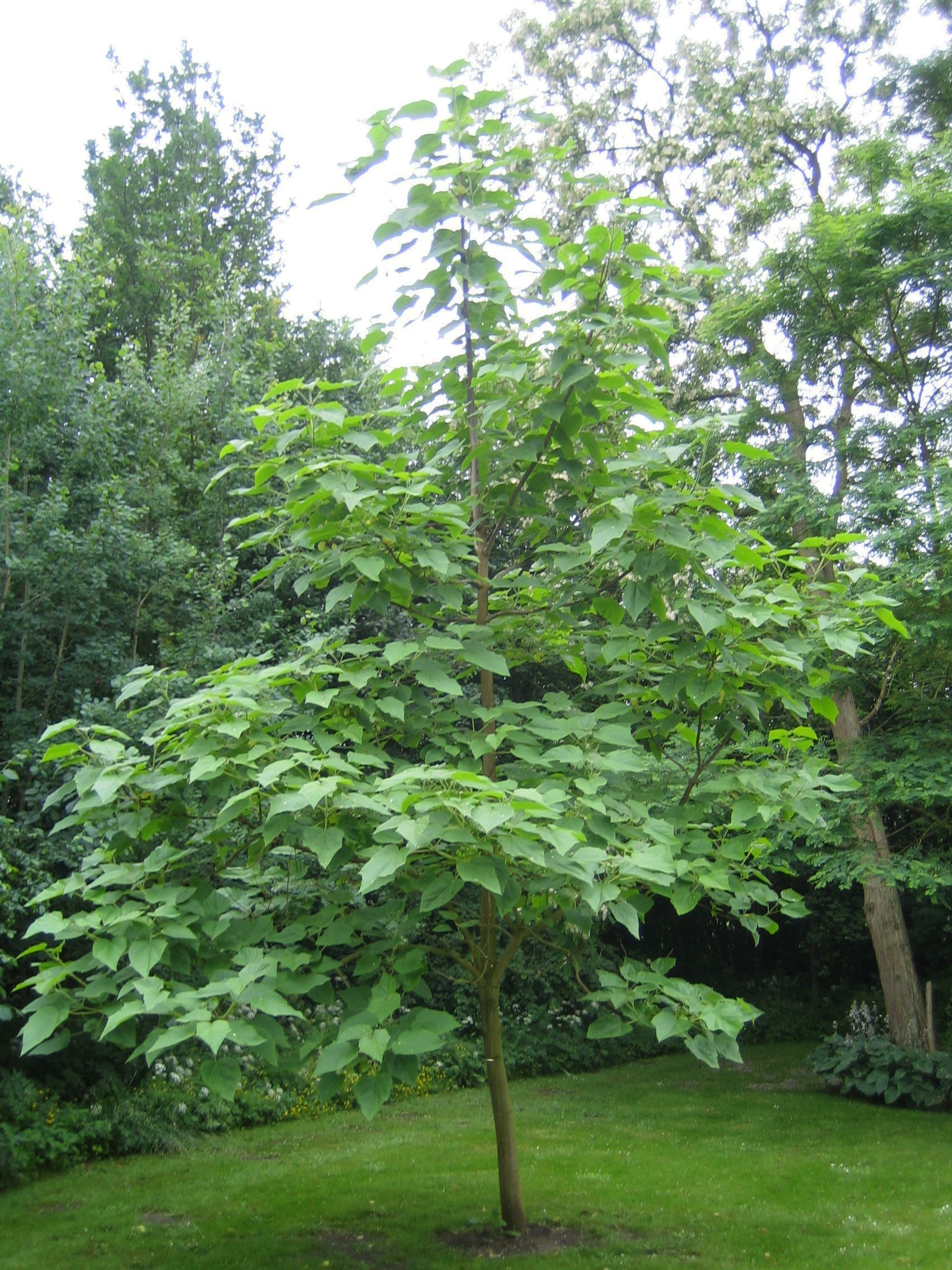 Pawlonia Tormentosa tree - summer - 5 years old